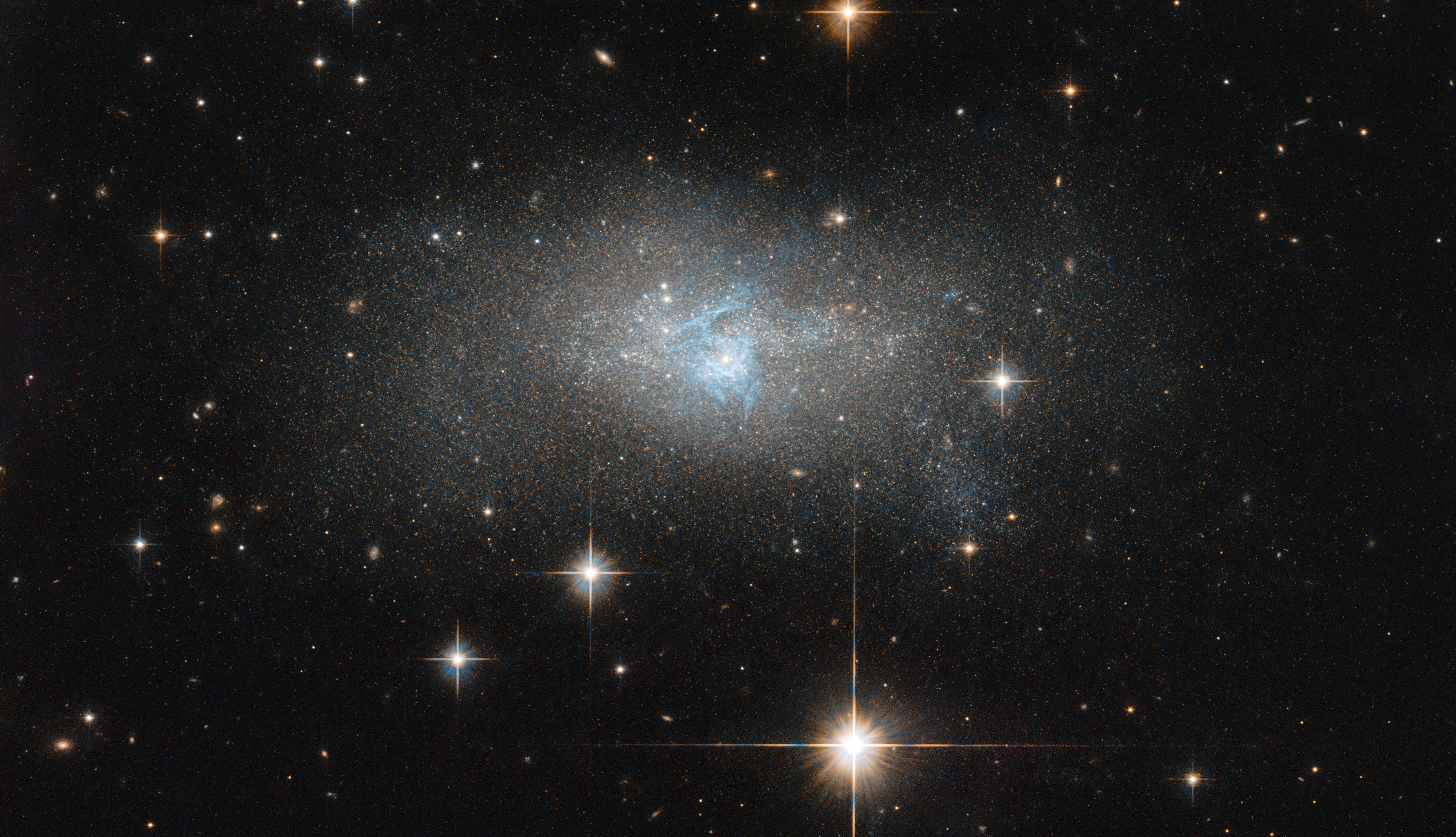 A ripple of bright blue threads through this galaxy like a misshapen lake system. The foreground of this image is littered with nearby stars with their gleaming diffraction spikes. A keen eye can also spot a few other galaxies that, while masquerading as stars at first glance, reveal their true nature on closer inspection. The central galaxy streaked with colour, IC 4870, was discovered by DeLisle Stewart in 1900 and is located approximately 28 million light-years away. It contains an active galactic nucleus, or AGN: an extremely luminous central region so alight with radiation that it can outshine the rest of the galaxy put together. AGNs emit radiation across the complete electromagnetic spectrum, from radio waves to gamma-rays, produced by the action of a central supermassive black hole that is devouring material getting too close to it. IC 4870 is also a Seyfert galaxy, a particular kind of AGN with characteristic emission lines. IC 4870 has been imaged by Hubble for several studies of nearby active galaxies. By using Hubble to explore the small-scale structures of AGN in nearby galaxies, astronomers can observe the traces of collisions and mergers, central galactic bars, nuclear starbursts, jets or outflows, and other interactions between a galactic nucleus and its surrounding environment. Images such as this can help astronomers understand more about the true nature of the galaxies we see throughout the cosmos.